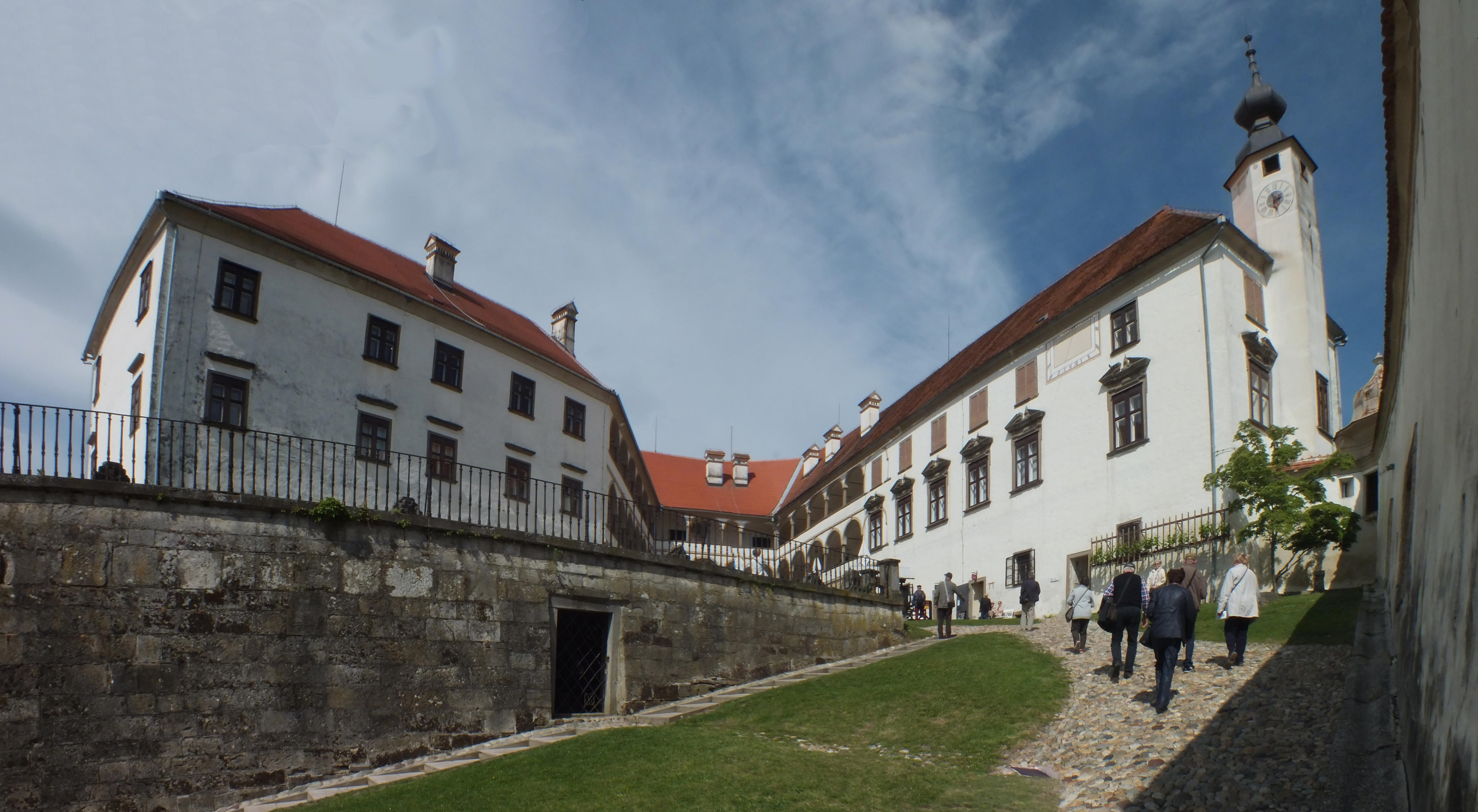 Part of the castle Ptuj in Slovenia